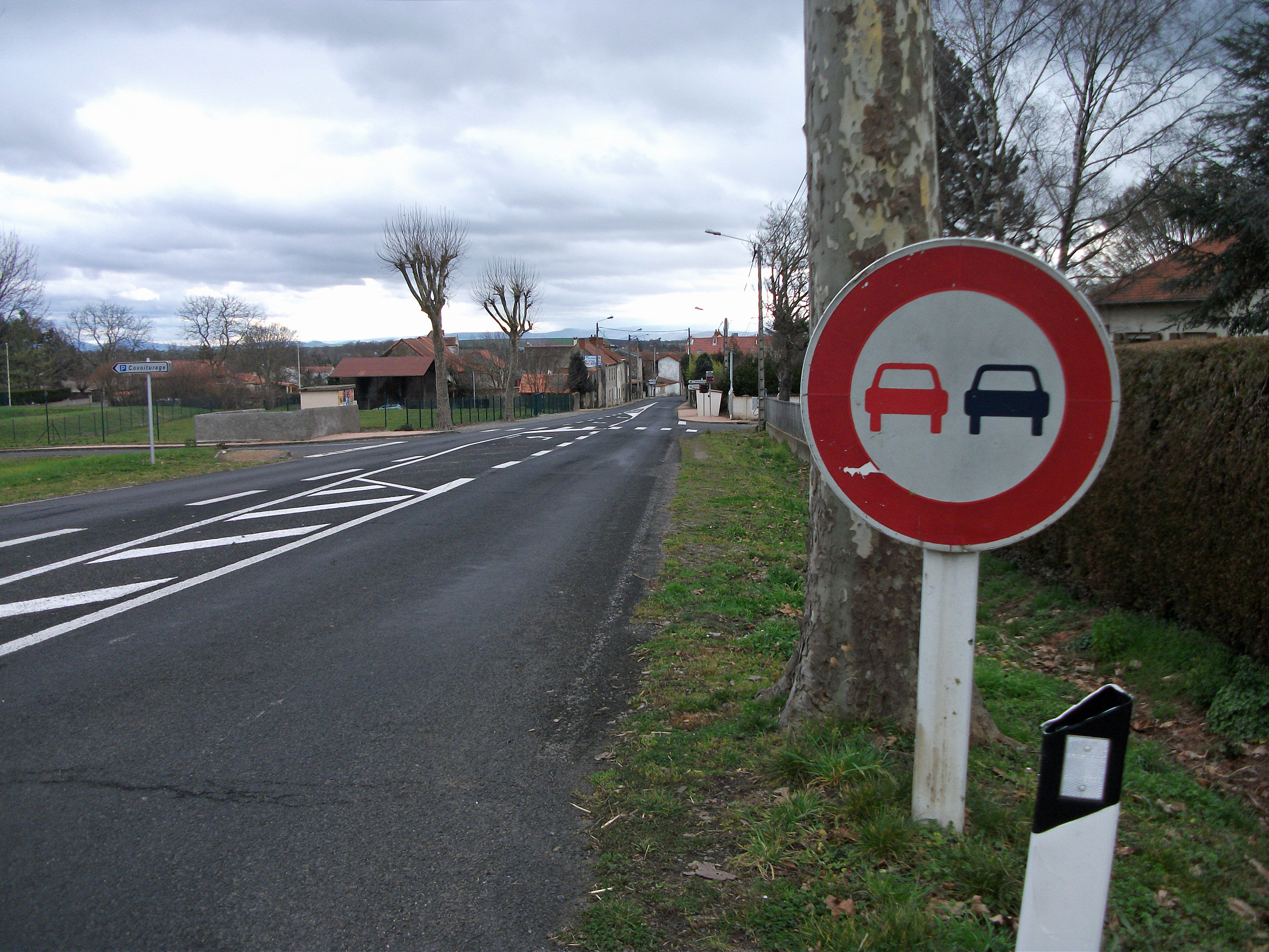 No overpass sign in Aigueperse (Puy-de-Dôme), departmental road 2019 [10047]